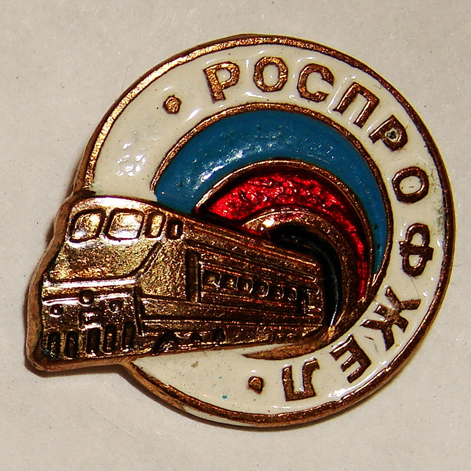 Russian Railways, badge of «Rosprofgel» company